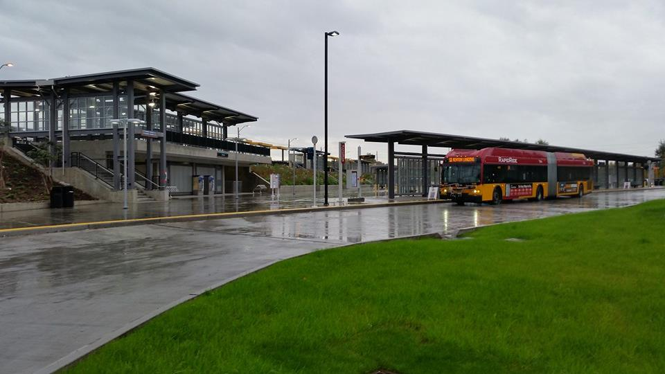 Tukwila Station as seen from the North